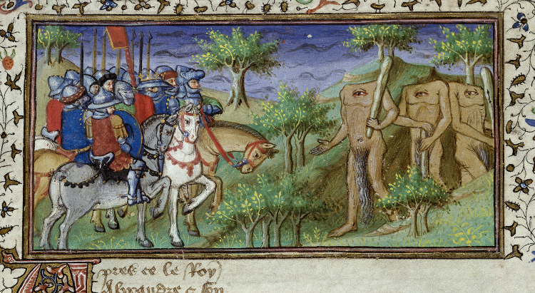 Alexander encounters the Blemmyae, who have their faces on their chests; detail of a miniature from BL Royal MS 20 B xx, f. 80r. Held and digitised by the British Library.